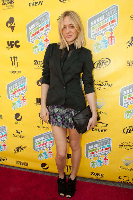 Chloë Sevigny attending the premiere of Barry Munday at the Paramount Theatre in Austin, Texas at SXSW 2010